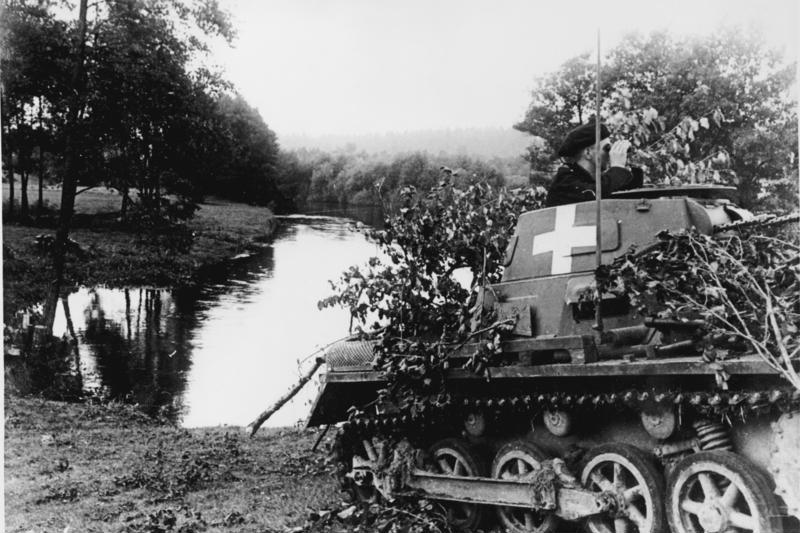 "German tank On the banks of the Brda river a German tank secures the area against attacks by scattered Polish troop units. The commander tensely observes the terrain with field glasses, to be able to immediately open fire on emerging Poles. 4 September 1939 [release date] "Fr.OKW"-Sche It must be mentioned: Photo: Weltbild-Schwahn" Information added by Wikimedia users.